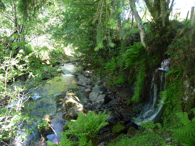 Part of the Afon Tarell between the A470 and the Taff Trail Even on the hottest day of the year so far this small river course is very cool, secluded and shaded.